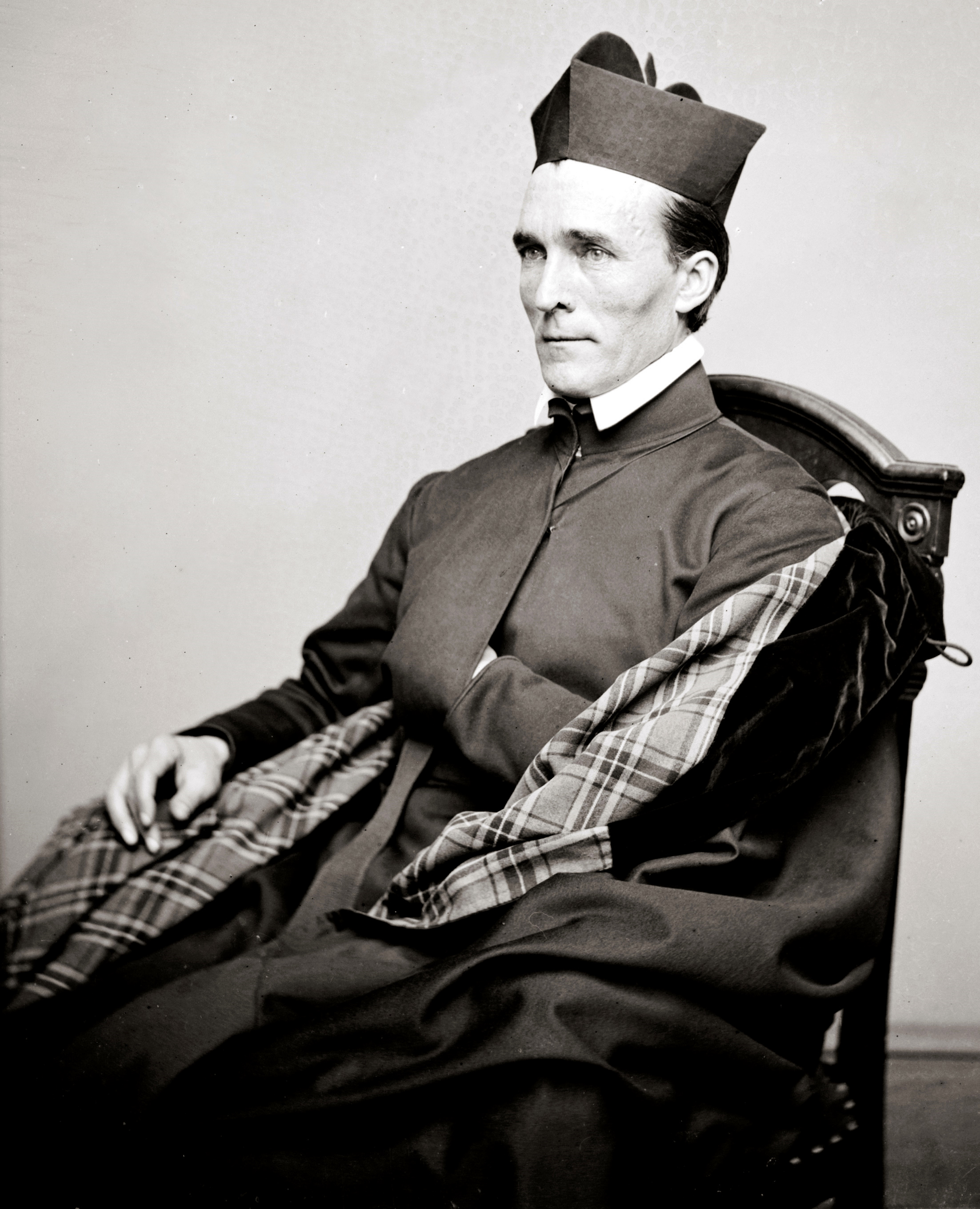 Rev. Bernard A. Maguire, SJ was born in Edgeworth, Ireland on February 11, 1818. The Maguire family moved to the United States in 1824 and settled in Frederick, Maryland. After receiving his early education at St. John's Literary Institute in Frederick, Maguire enrolled in Georgetown College (present-day Georgetown University in Washington, D.C.). He entered the Society of Jesus on September 20, 1837 and was ordained on September 27, 1850. Maguire began teaching at Georgetown and was made Prefect of Discipline. In August of 1852, he was appointed president of the College and served in that position until October 1858. Maguire was responsible for leading a building and renovation program that greatly expanded the College. In January of 1866, Maguire was once again appointed as College president. During his second tenure, Maguire assisted in founding the College's law school. He left Georgetown in July of 1870 to serve as a missionary. Maguire began working at St. Aloysius Church in Washington, D.C. and later moved to Boston, Massachusetts. On April 26, 1886 Maguire died at St. Joseph's Church in Philadelphia, Pennsylvania.